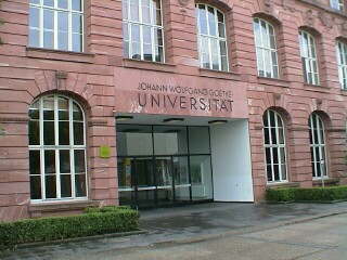 University of Frankfurt entrance